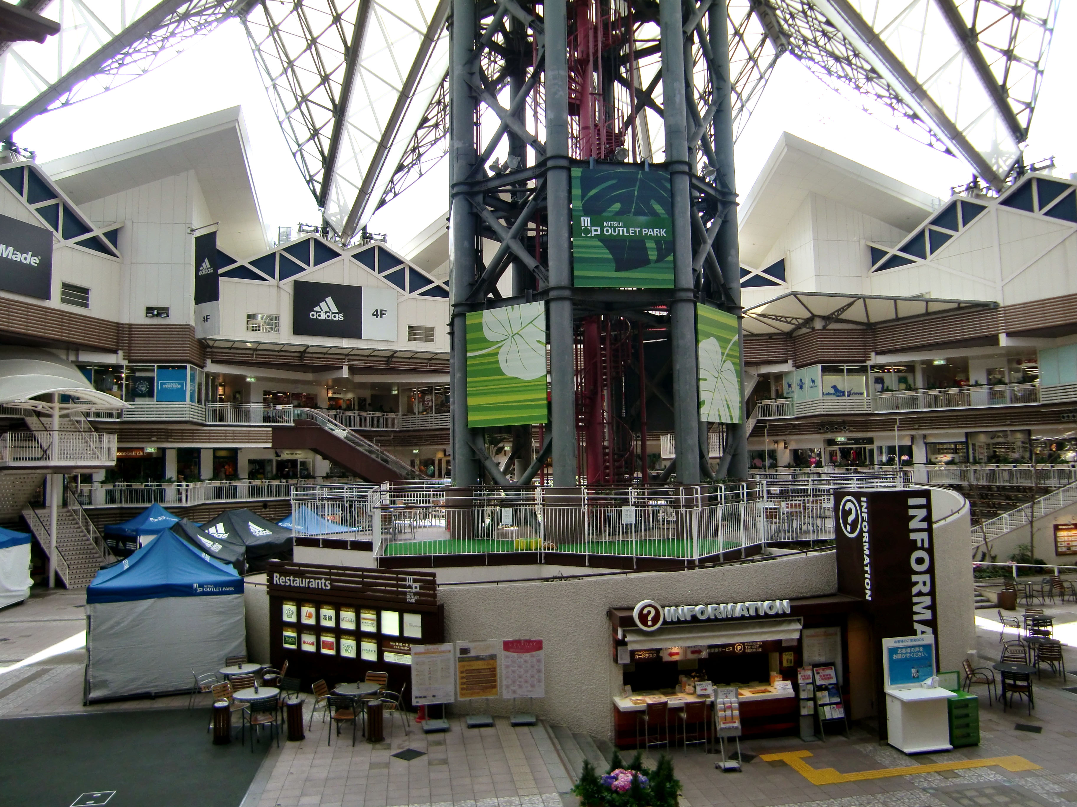 MITSUI OUTLET PARK OSAKA TSURUMI,2-7-70 Matta-Omiya Tsurumi-ku Osaka-City Osaka Japan.